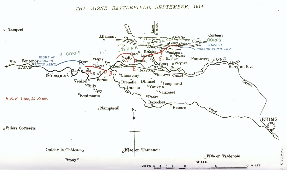 Map: Operations on the Aisne, September 1914